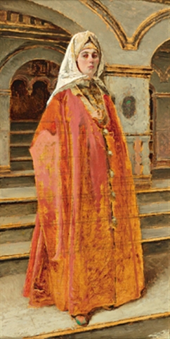 Alexander Litovchenko (1835-1890) Bojar Woman